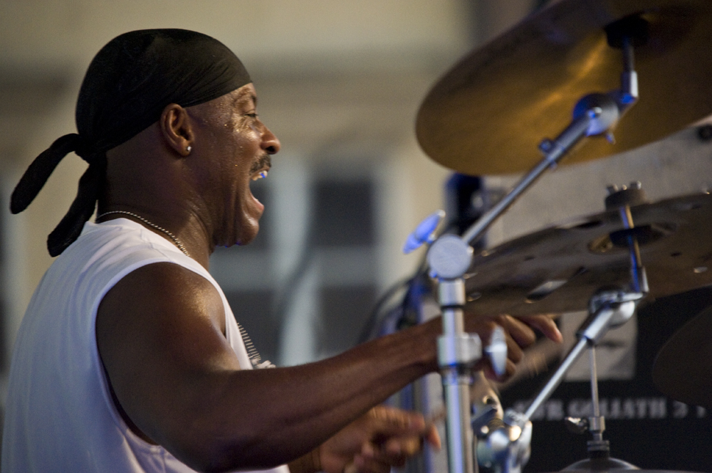 American drummer Sonny Emory playing with Jeff Lorber Fusion in Warszawa, Poland.